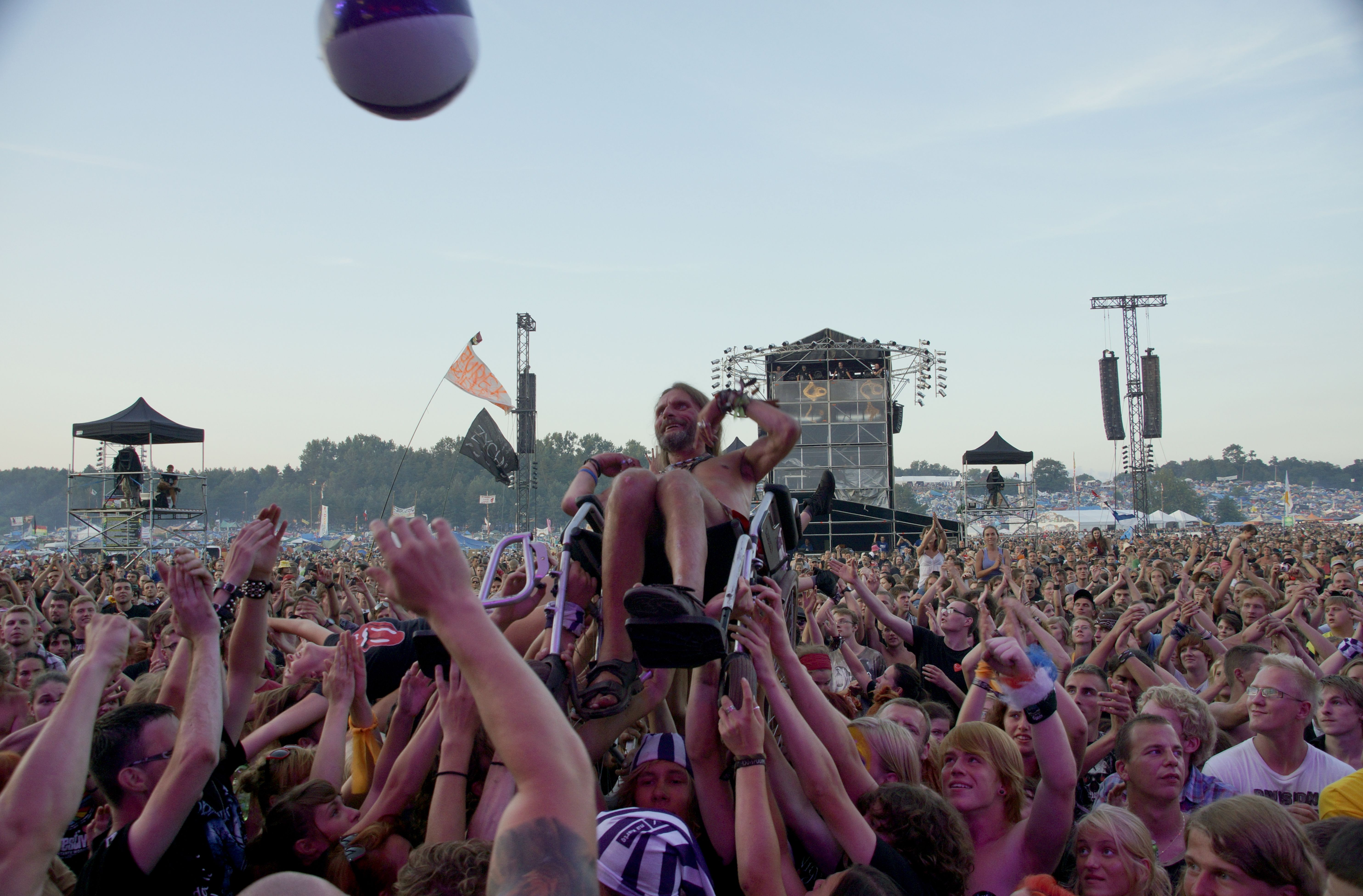 Przystanek Woodstock Festival 2012, Poland - a wheelchaired man being crowdsurfed at a concert